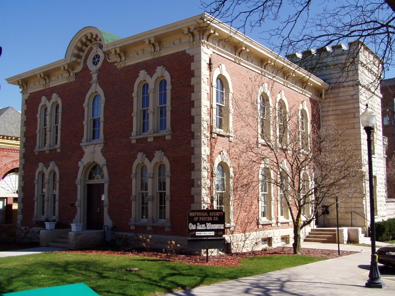 Valparaiso, Indiana; Historic Sheriffs House with Jail